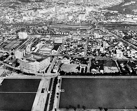 View of Shinjuku circa 1960